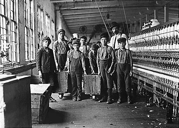 Some of the doffers and the Supt. Ten small boys and girls about this size out of a force of 40 employees. Catawba Cotton Mill. Newton, N.C.